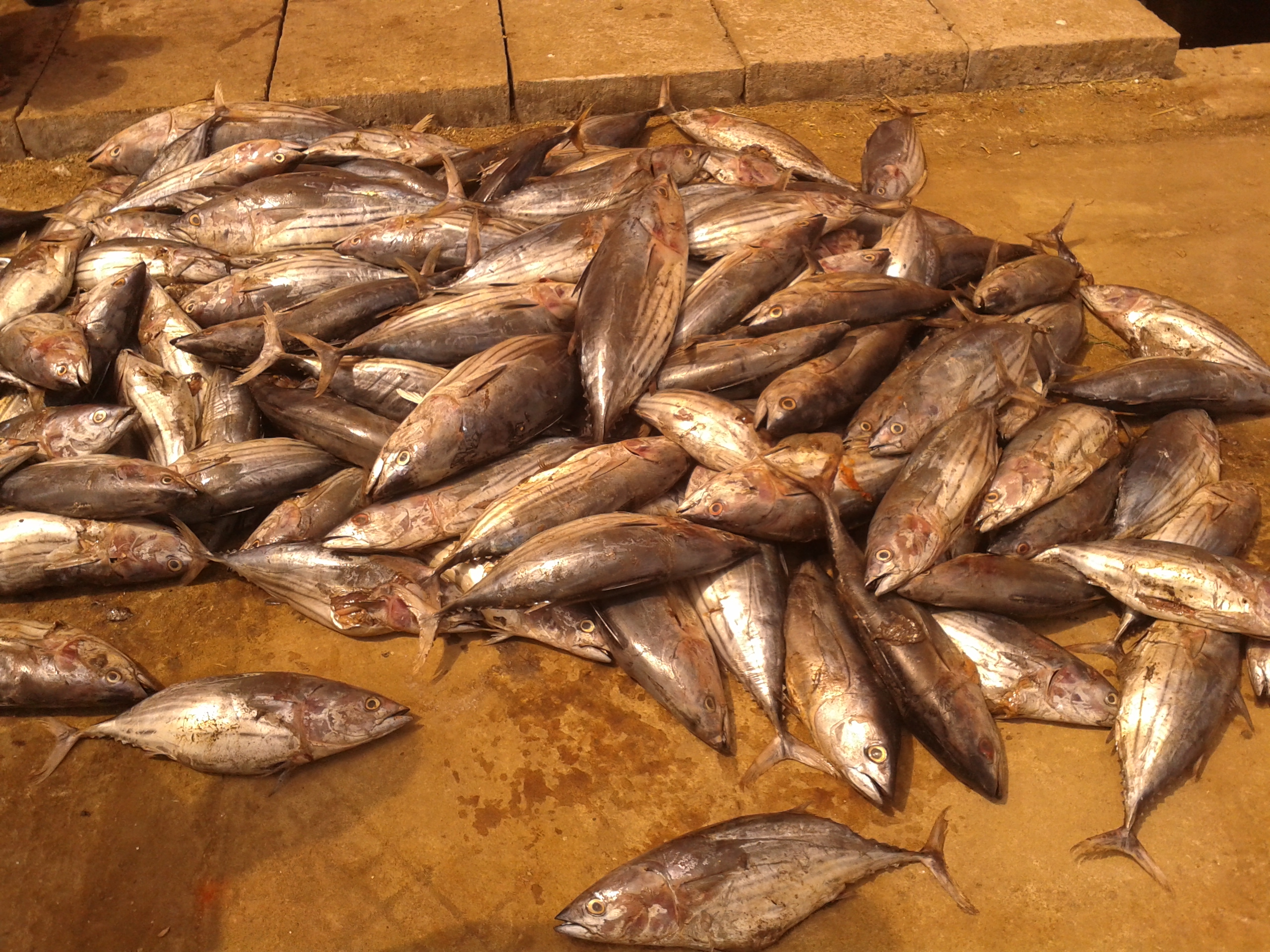 Tuna fishes as dumped from a fishing boat for loading